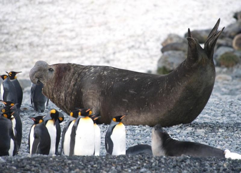 091201_south_georgia_3609